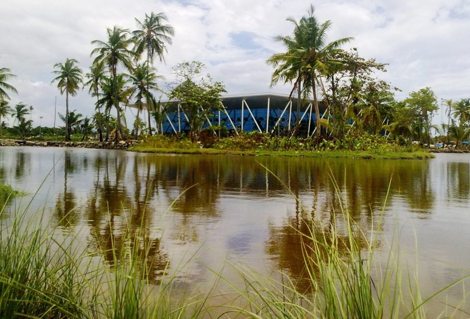 Equatorial Convention Center, Addu City, Maldives, where SAARC summit will be held on 2011